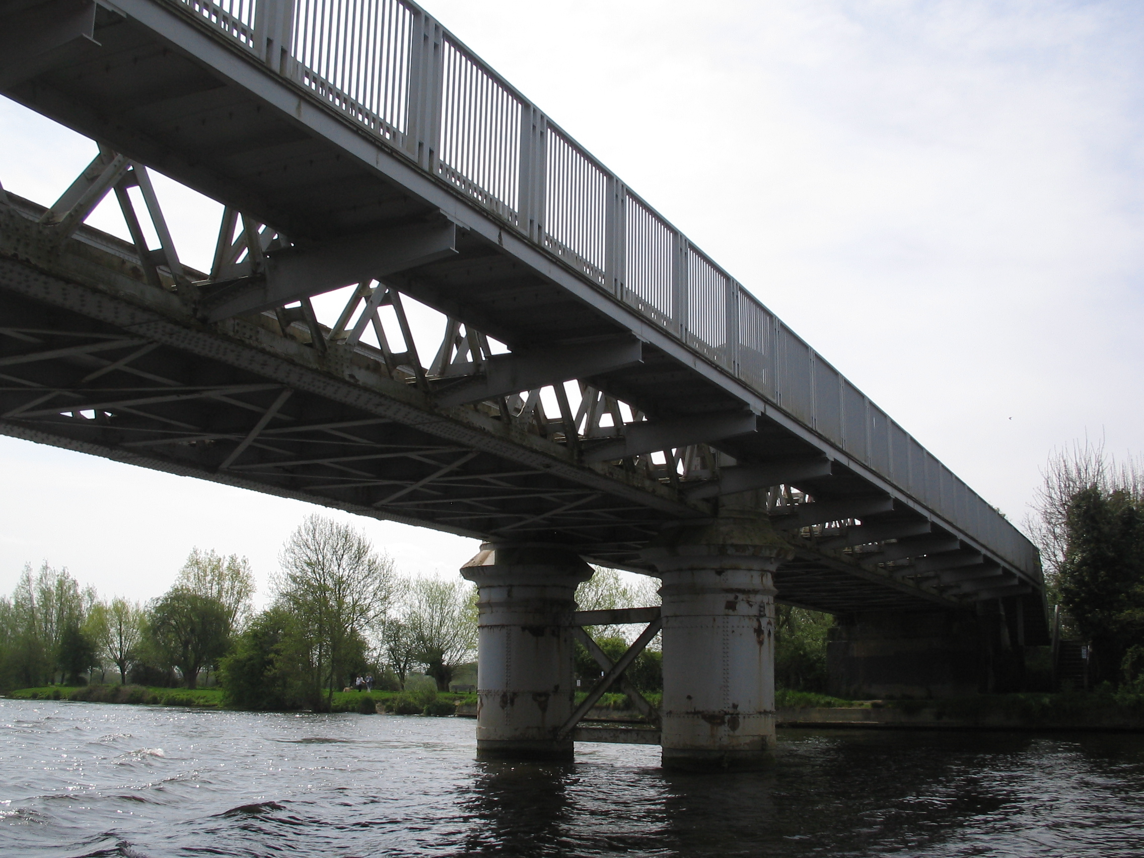 Bourne End Railway and Foot bridge over the River Thames.